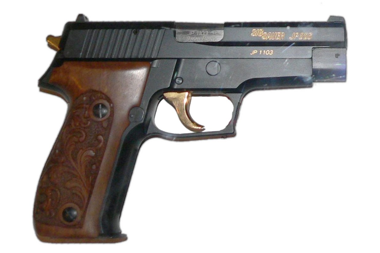 automatic pistol SIG-Sauer P266. Image cropped from Image:Flingues-p1030104.jpg